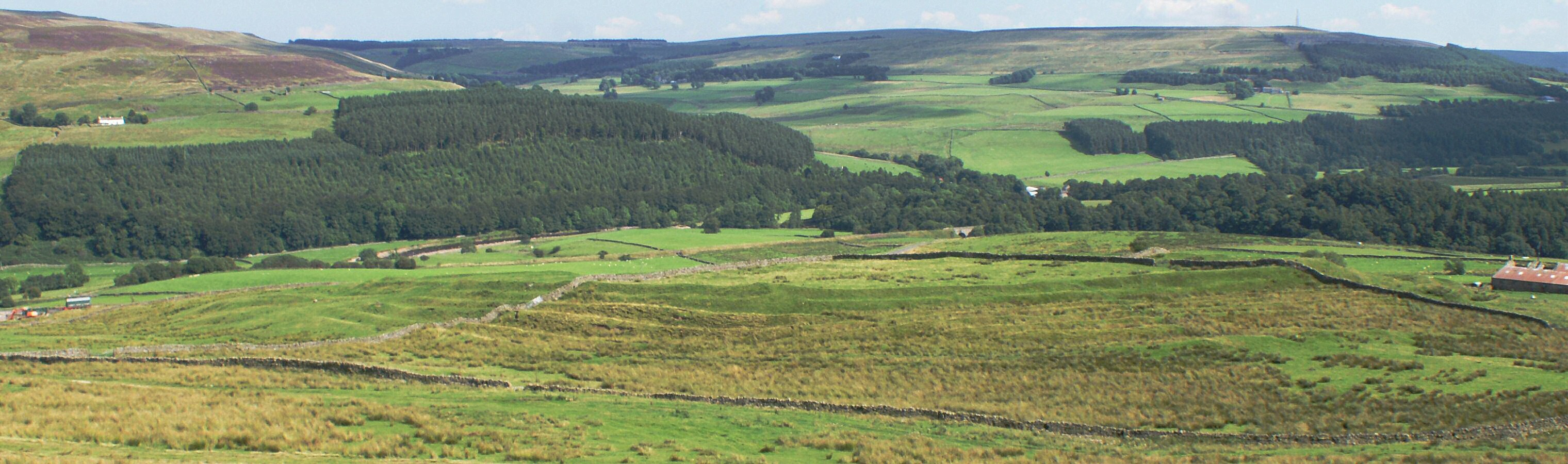 Photograph of Whitley Castle (Roman Epiacum) near Alston, Cumbria. The fort is south of Hadrian's Wall and was likely situated here to control local lead mining.